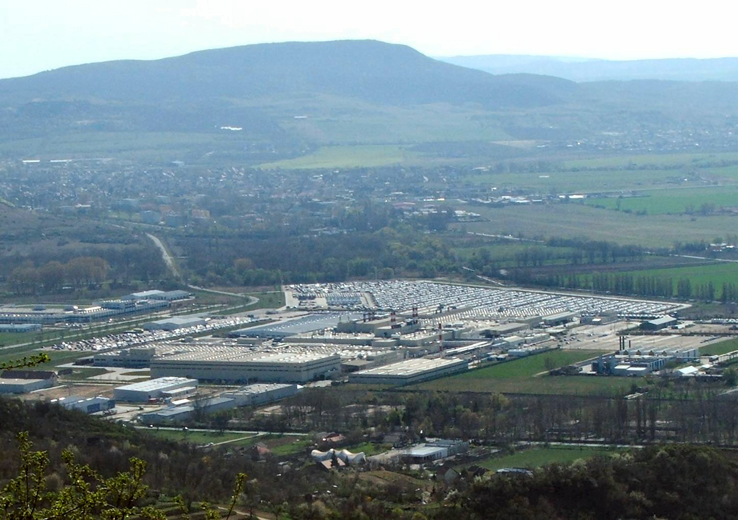 Suzuki factory in Esztergom, HU